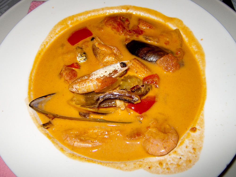 Fish Soup at the George Hotel West Bay